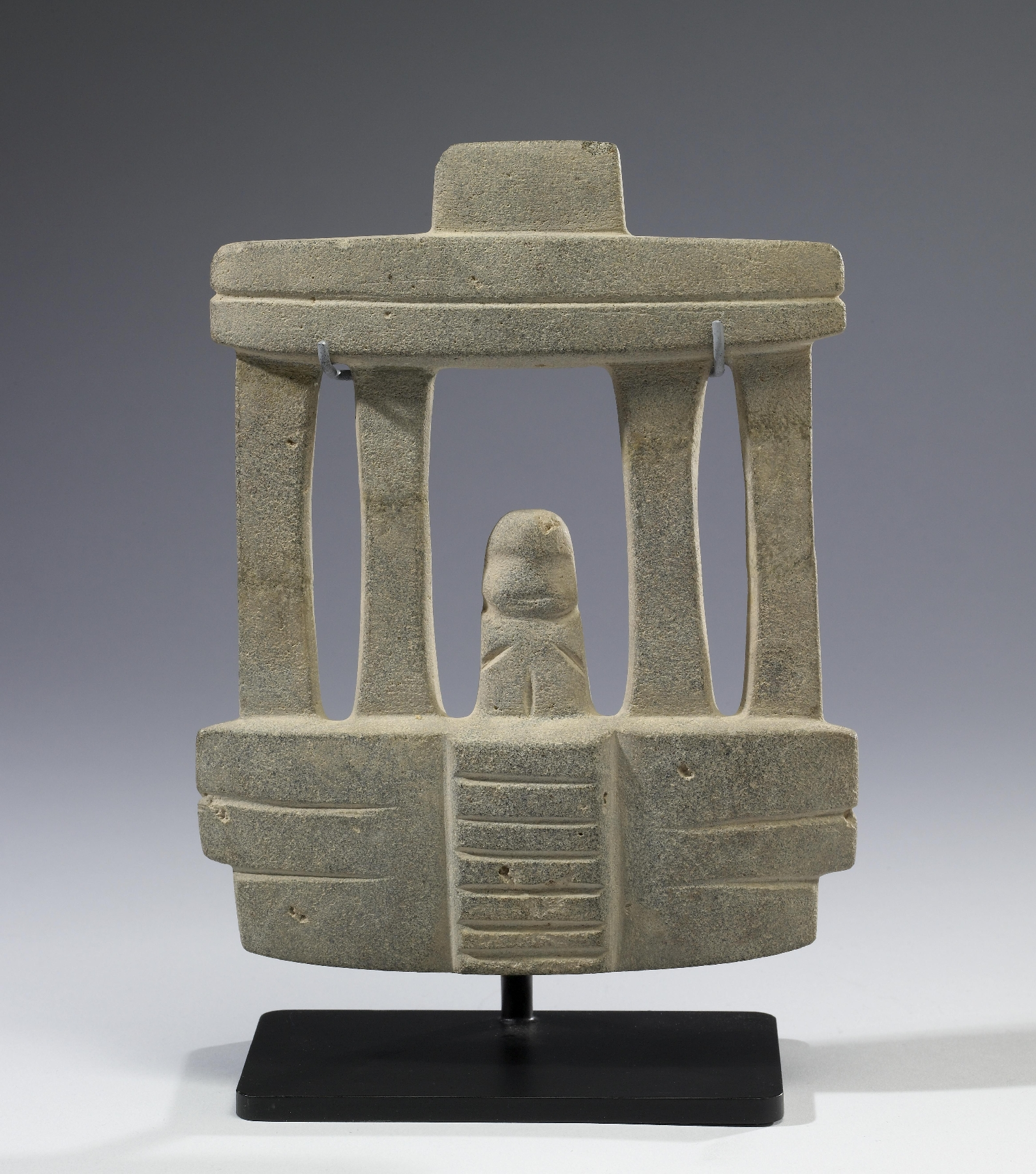 The Mezcala sculptural style of Guerrero emphasizes geometric abstraction in both human figures and architectural models. Few examples have been found in their original context, and thus the function, meaning, and even the length of time during which the style was in use remain ill defined. Contributing to the question of chronology is the fact that other Mesoamerican peoples, from the latter centuries of the Late Formative to the Late Postclassic periods (200-1500 CE), acquired and preserved these works as heirlooms. They have been found at sites throughout Mexico, and large numbers were excavated from ritual caches in the Templo Mayor, the main temple of the fifteenth-century Mexica (Aztecs) of Tenochtitlan (Mexico City). In the twentieth century, the minimalistic Mezcala artworks fascinated the Mexican artist and cultural historian Miguel Covarrubias, who compared them favorably to other sculptural traditions such as the celebrated Cycladic style of ancient Greece. This example features the typical Mezcala four-columned structure atop a pyramidal platform articulated by apron-moldings on the uppermost tier. A central staircase leads into the structure at the midpoint between the columns. A lone figure stands between the columns and inside the structure. No buildings of this type have survived in Guerrero, however, which leaves open the question of whether this carving faithfully represents the architectural traditions of the region during the Formative and Classic periods.